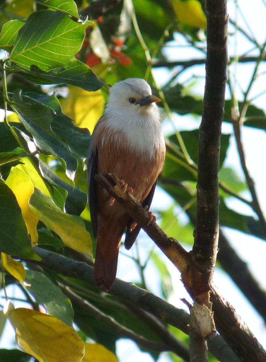 Chestnut-tailed Starling or Grey-headed Myna Sturnia malabarica at Anamalais